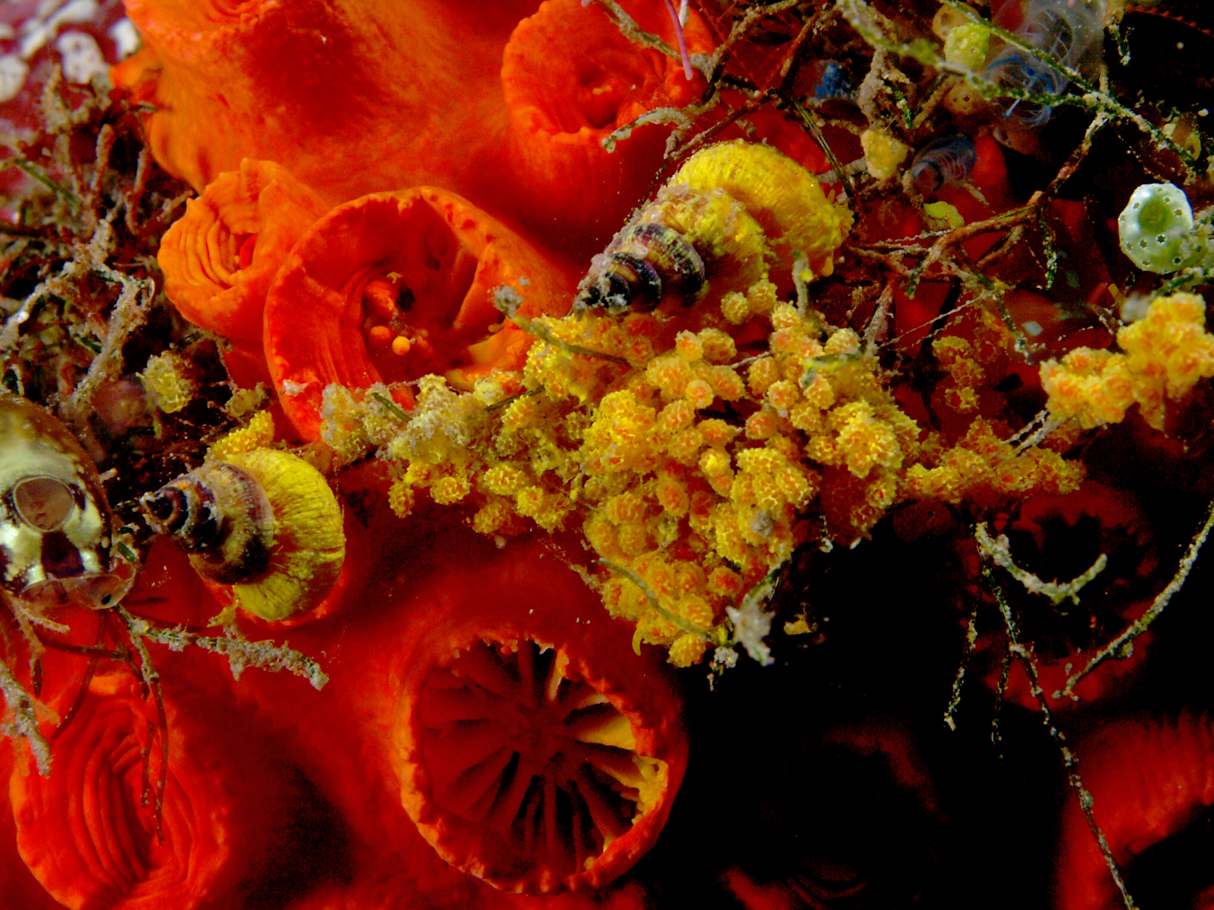 Epidendrium billeeanum (synonym : Epitonium billeeanum) Wentletrap snails with their egg masses on a Tubastraea cup coral. These snails feed on the cup coral via a long feeding tube that they introduce into the cups to get at the polyps inside.